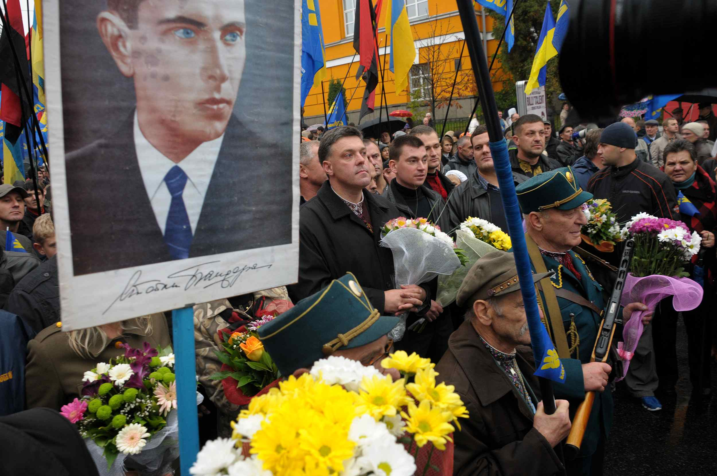 2012 UPA March in Kiev, 14 October 2012.